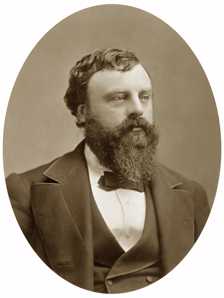 Isaac Smith Kalloch (1832–1887), Mayor of San Francisco, California 1879–81.